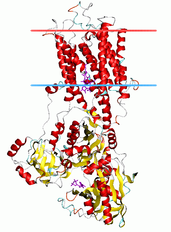 Protein image from OPM database